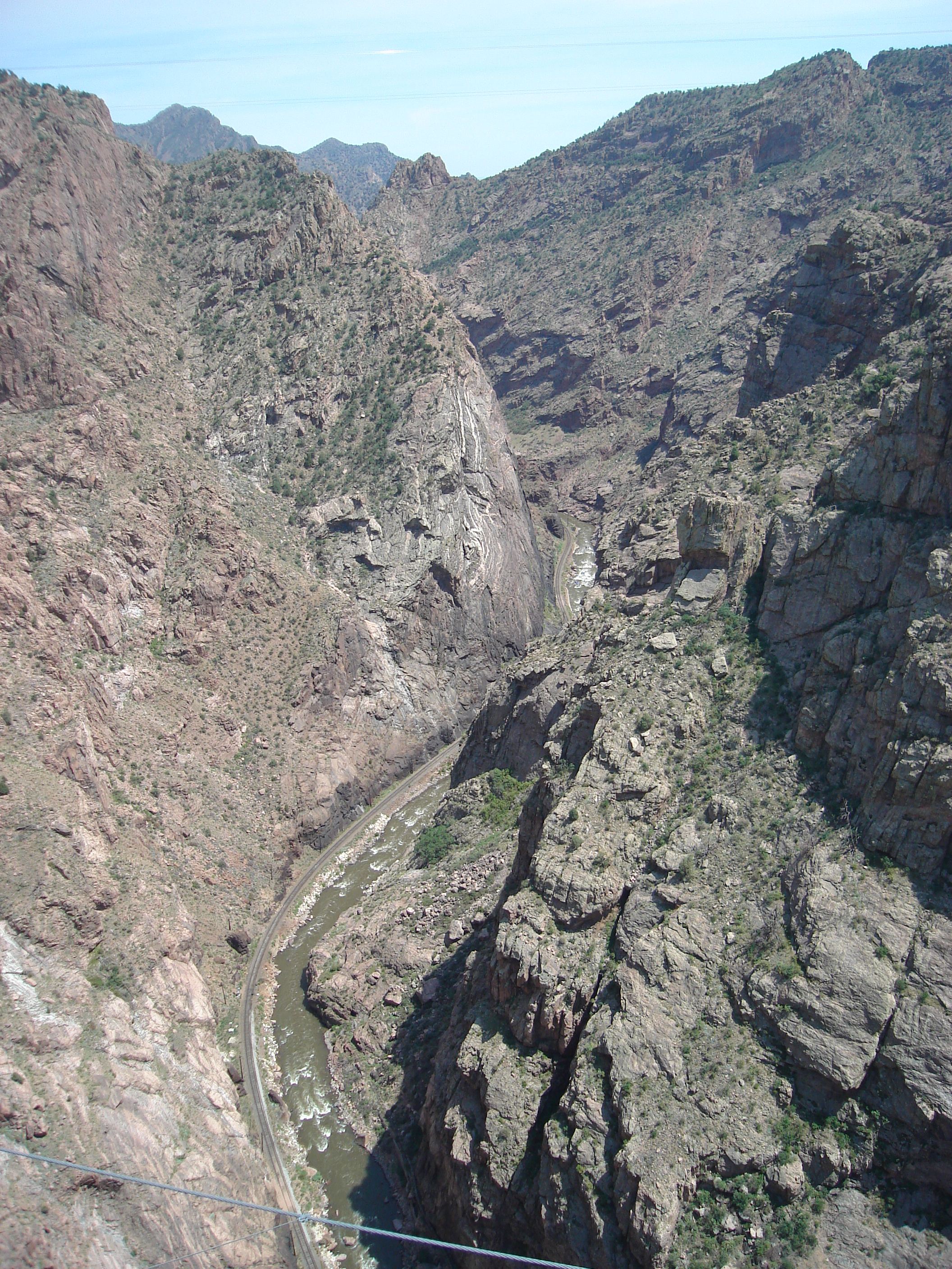 The Arkansas River cuts through the Royal Gorge.